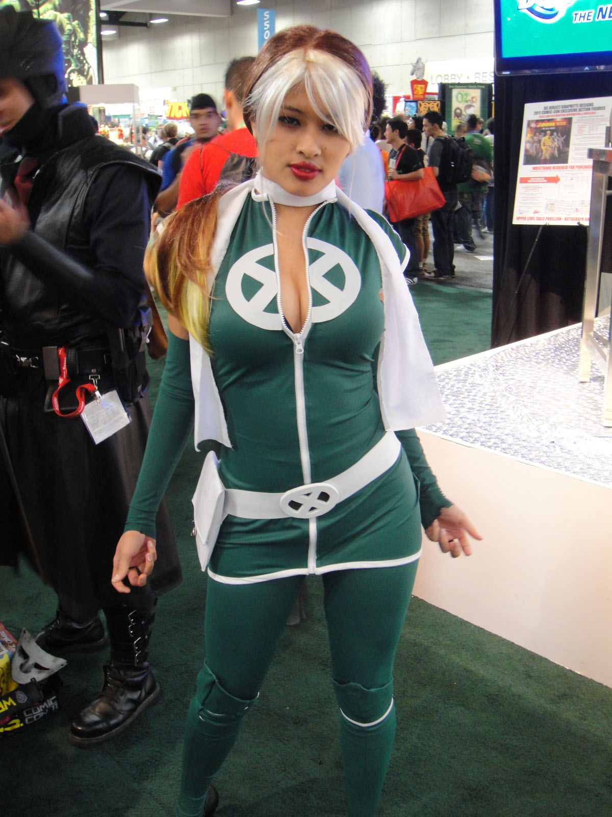 Cosplay of Rogue, X-Men character, San Diego Comic-Con 2011